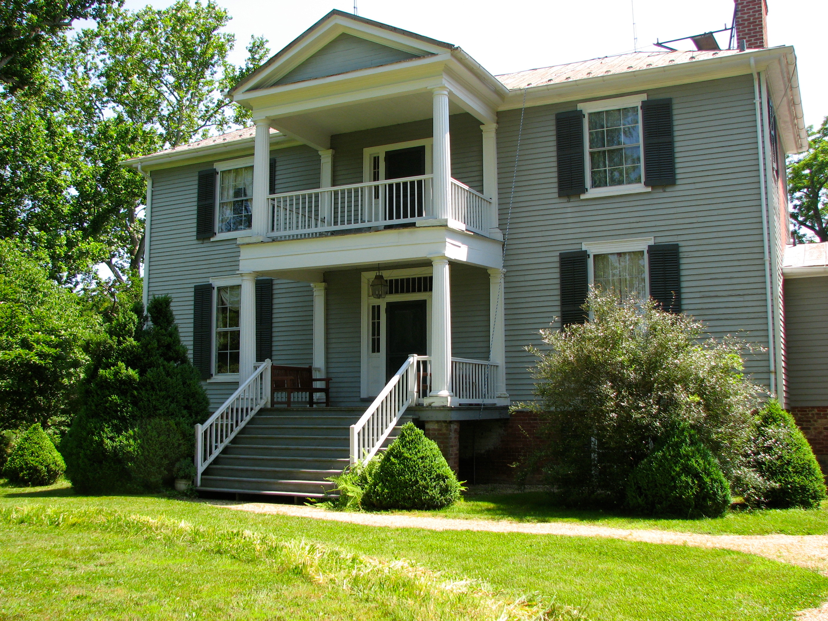 Listed on the National Register of Historic Places in Spotsylvania County, Virginia